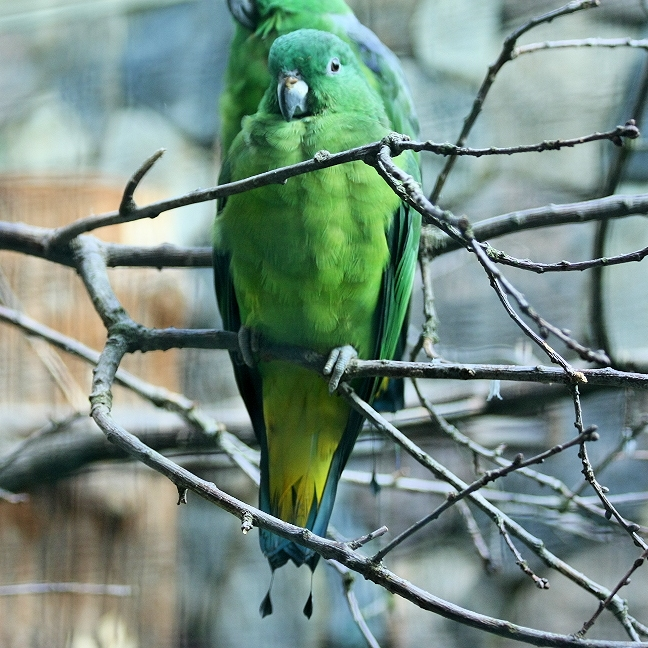 Buru Racquet-tail, Palette De Buru, or Lorito-momoto De Buru in captivity. The photograph shows a female and there is a male in the background.